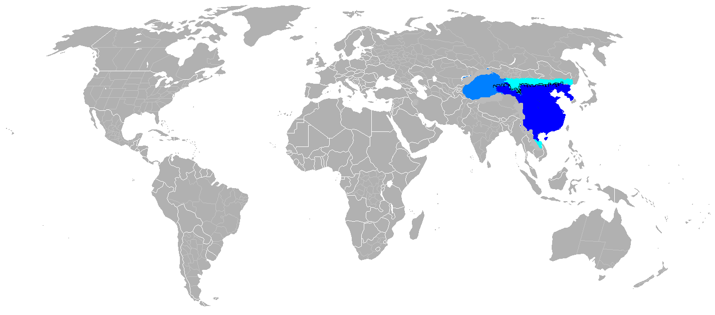 Map of the Western Han Dynasty in 2 CE. darkest blue are the principalities and commandaries of the Han Empire. light blue is the Tarim Basin protectorate. sky blue areas are under fluctuating control. Crenelations are the Great Wall of China during the Han Dynasty.